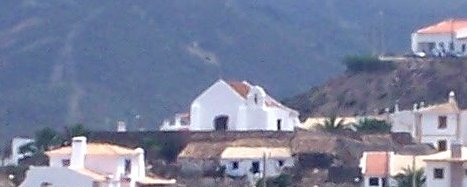 Carrapateira Fort, in the village of Carrapateira, in Aljezur, Portugal.